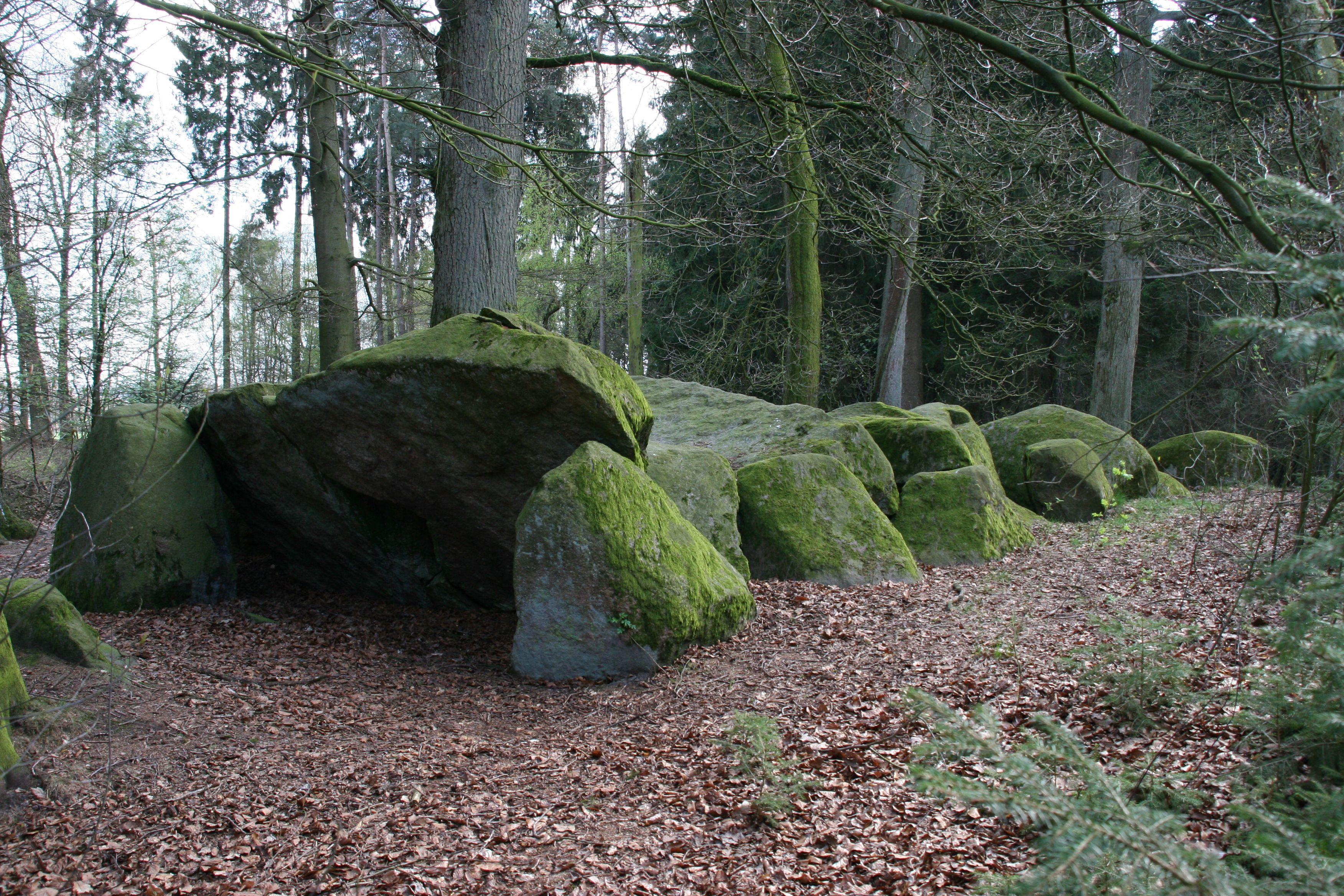 Belm: megalithic chambered tomb "Sloopsteine von Haltern"